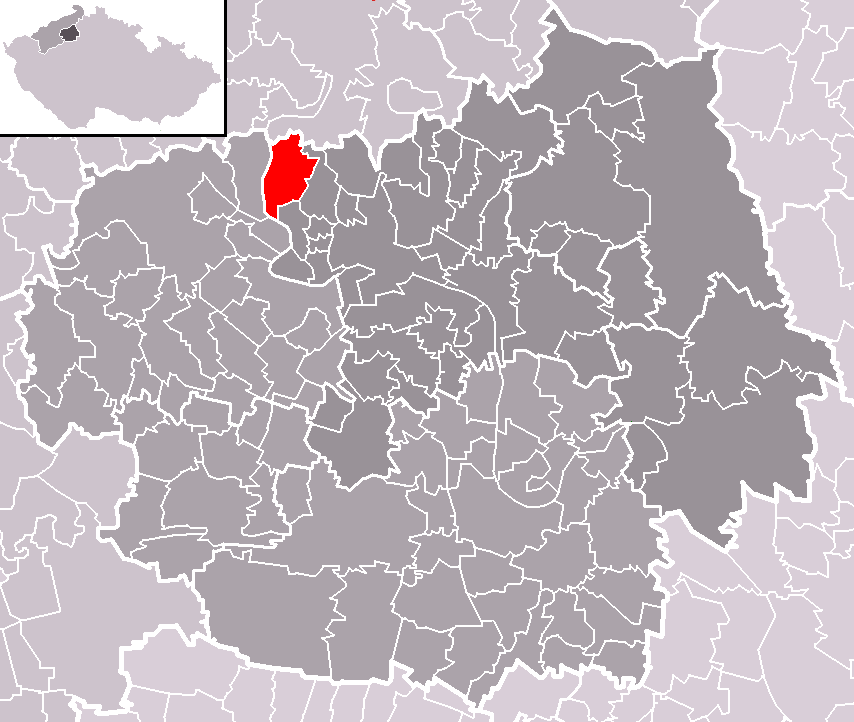 Location of Libochovany municipality within Litoměřice District and administrative area of Litoměřice as a Municipality with Extended Competence.